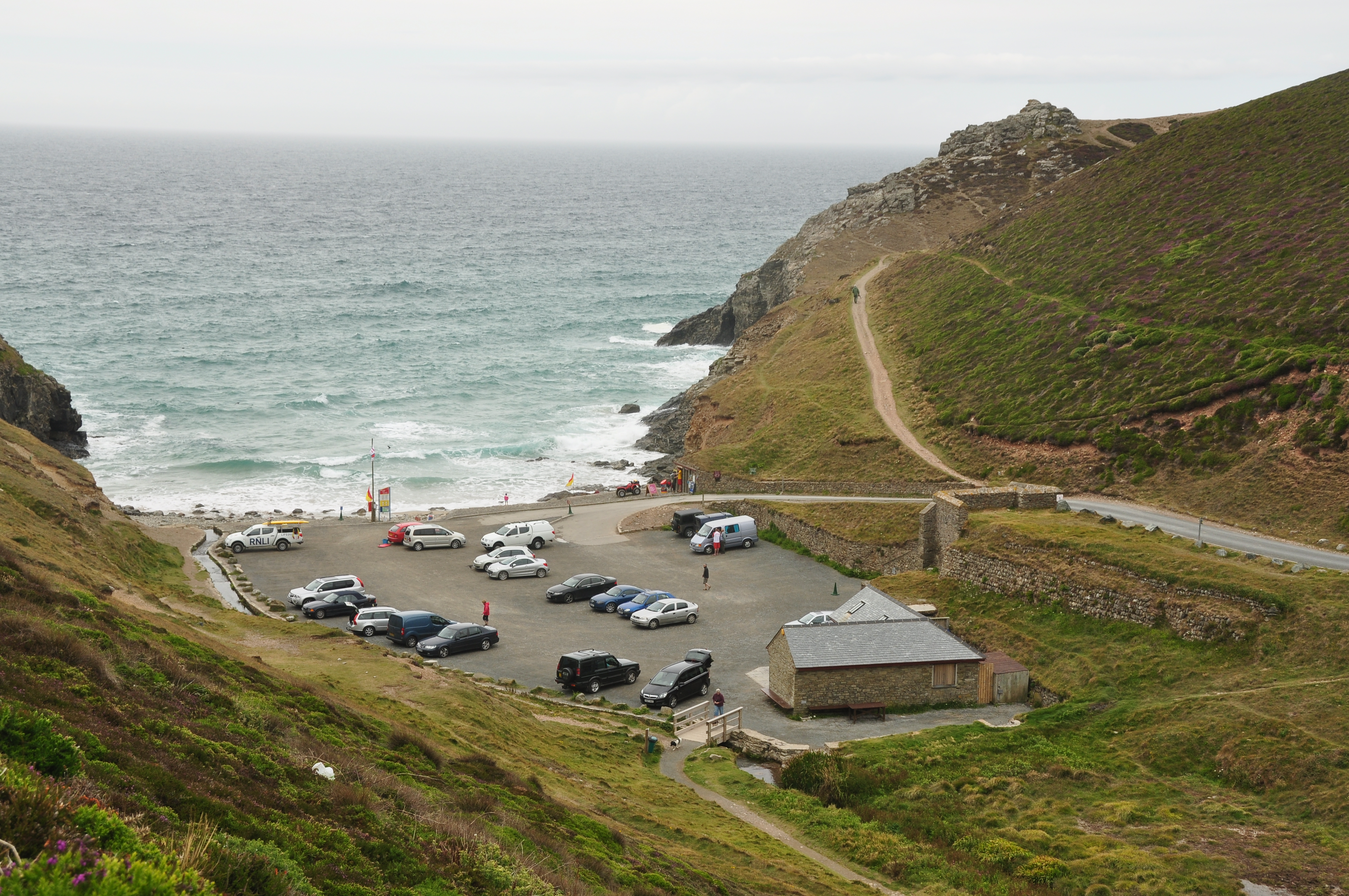 Chapel Porth